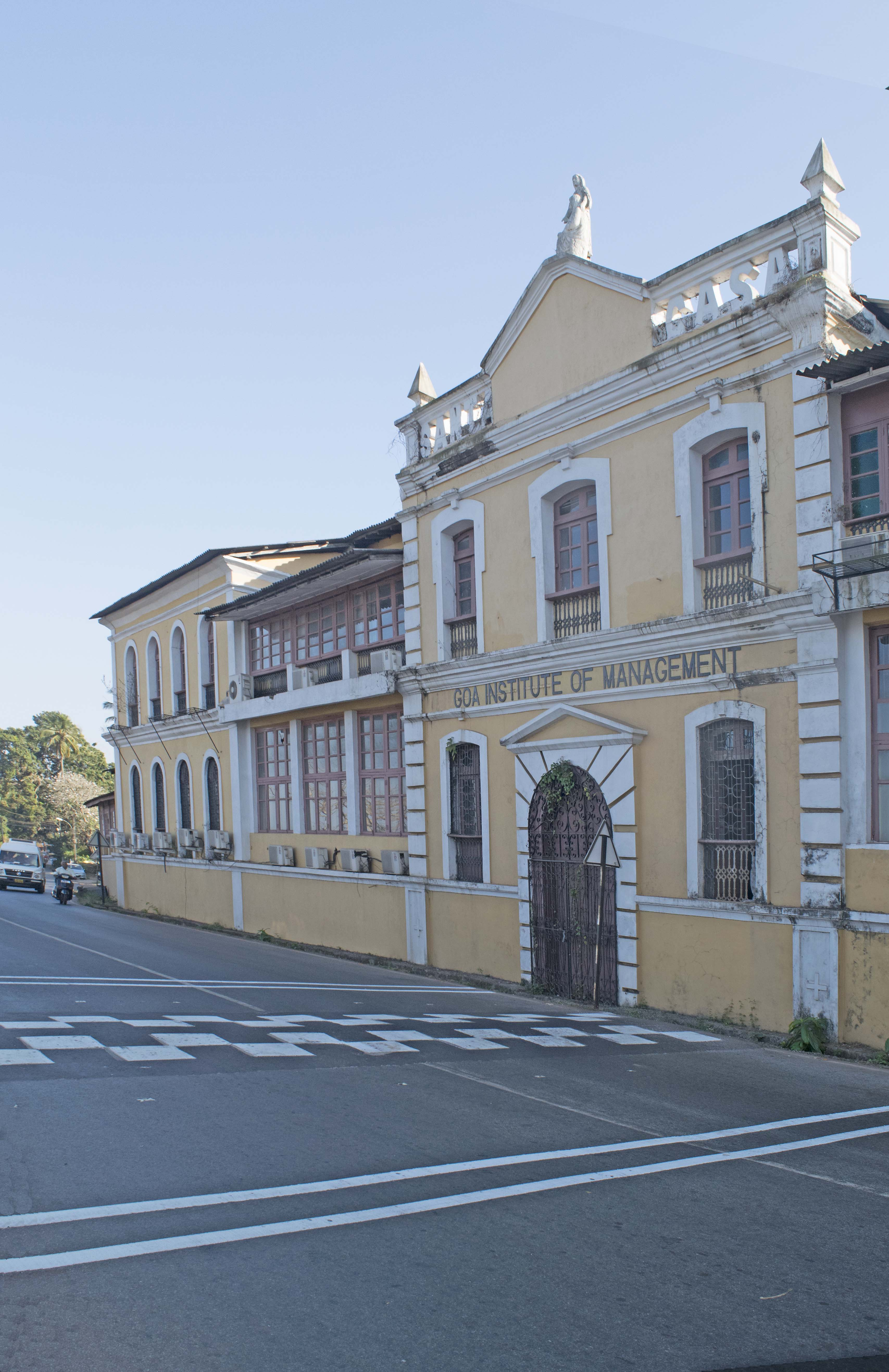 Goa Institute of Management, Panaji